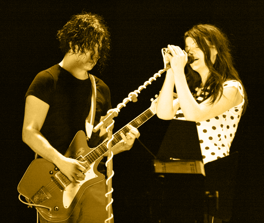 (CC BY-SA 2.0)Jack & Meg, The White Stripes